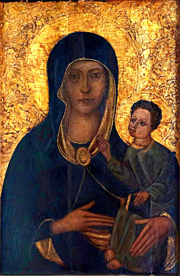 The image of the Virgin Mary from St. Adalbert's church in Brdów, Poland (15-16th).